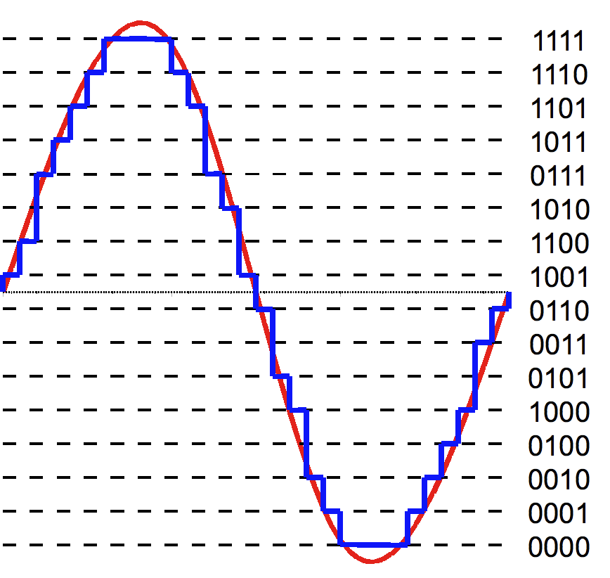 4-bit resolution with sixteen levels of quantization, compared with an analog sine wave. After 3 and 2-bit images.